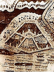 Siege of Belgrade 1456, from a Fifteenth-Century Turkish manuscript